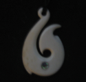 Picture of a maori Hei Matau.